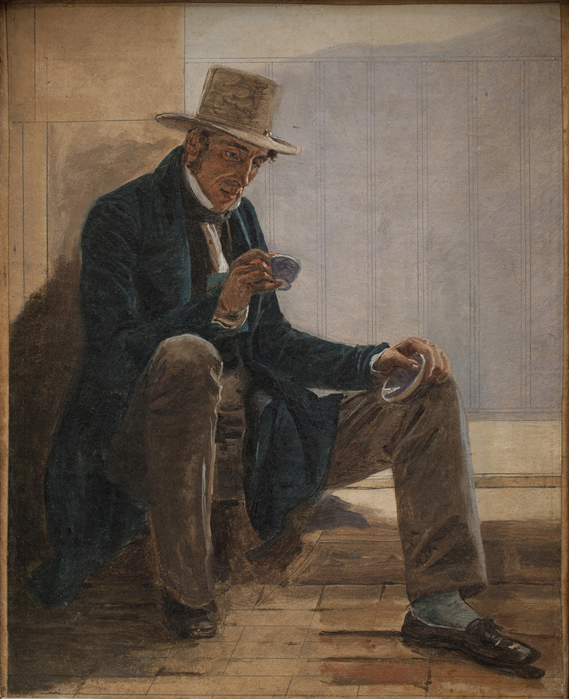 Portrait of the Danish painter Martinus Rørbye. This is a study for his painting of a group of Danish artists in Rome.